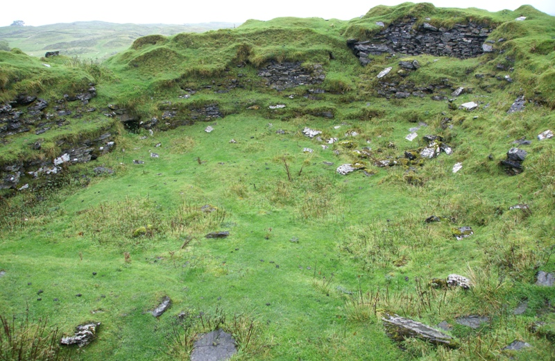 Tirefour Broch, Lismore, Scotland - broch interior, looking north